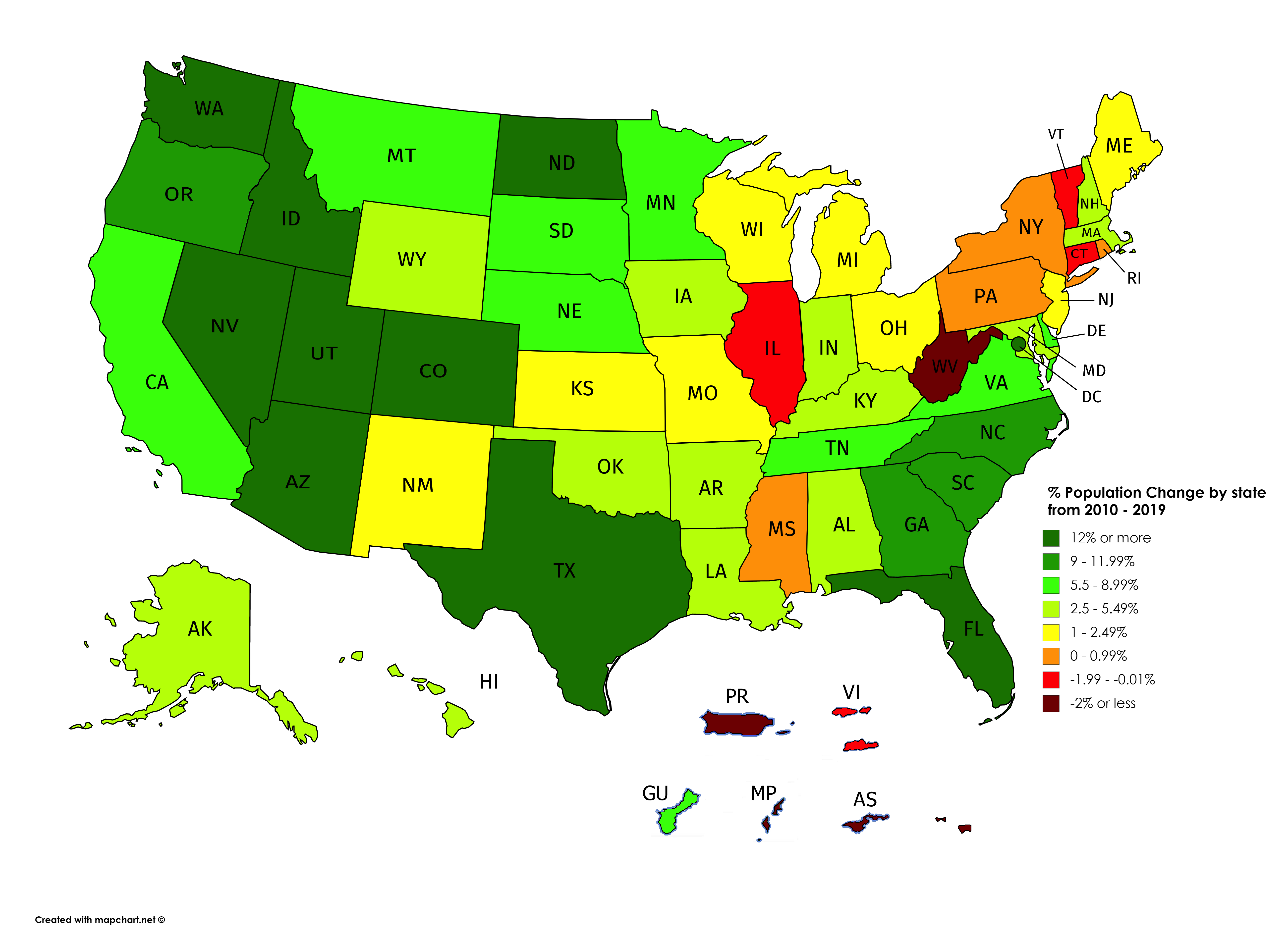 The following is the original description: "A map of Population Change in the United States, by state [and territory], from the 2010 Census to the 2019 American Community Survey Estimates. This map was designed to replace the existing map on the "List of states and territories of the United States by population" Wikipedia Article with as little visual change as possible." Note that the territory population change data (except Puerto Rico) is from the CIA World Factbook.